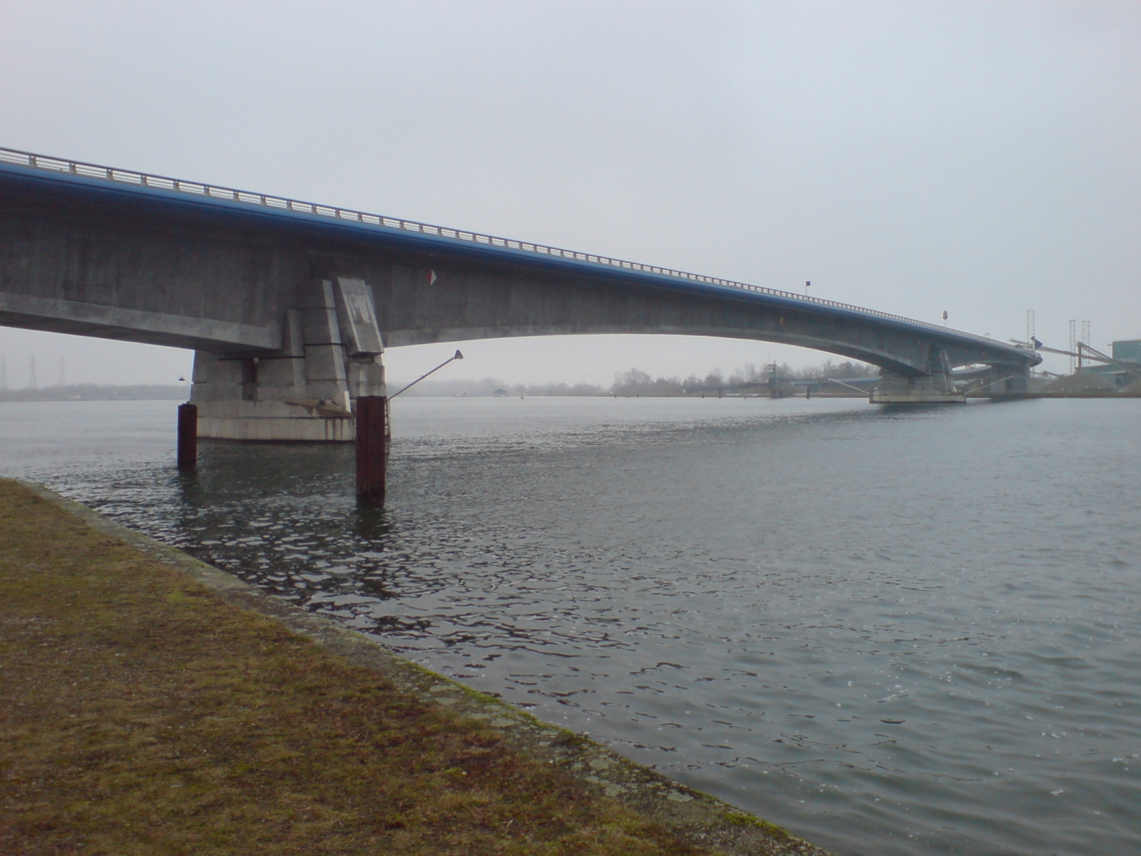 The 'Pierre Pflimlin Bridge' over the Rhine between Germany and France, south of Strasbourg. Looking northeast over the Rhine.